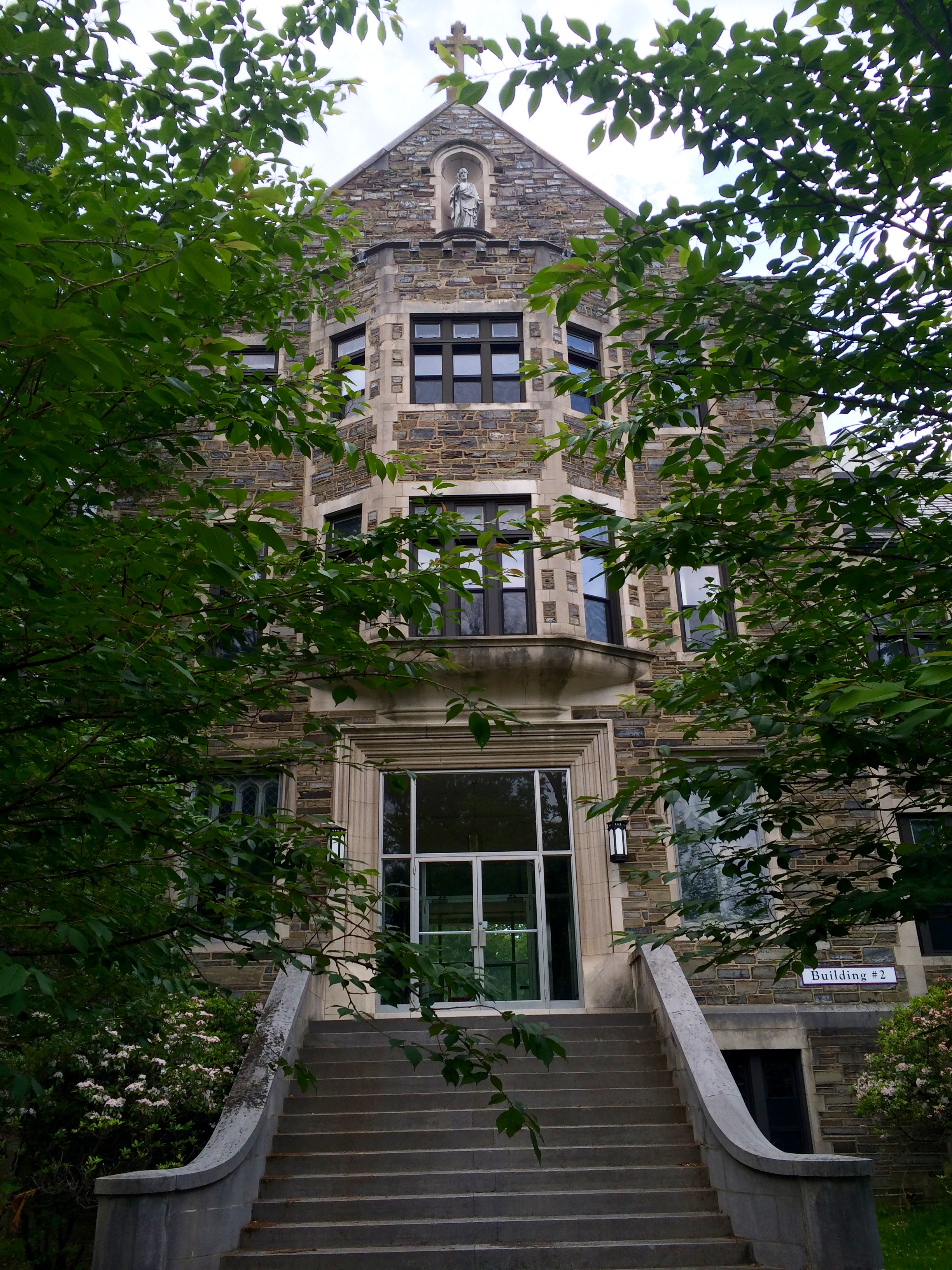 Building two of St. Joseph's Seminary of Princeton, New Jersey (actually located in Plainsboro, New Jersey but with a Princeton address)